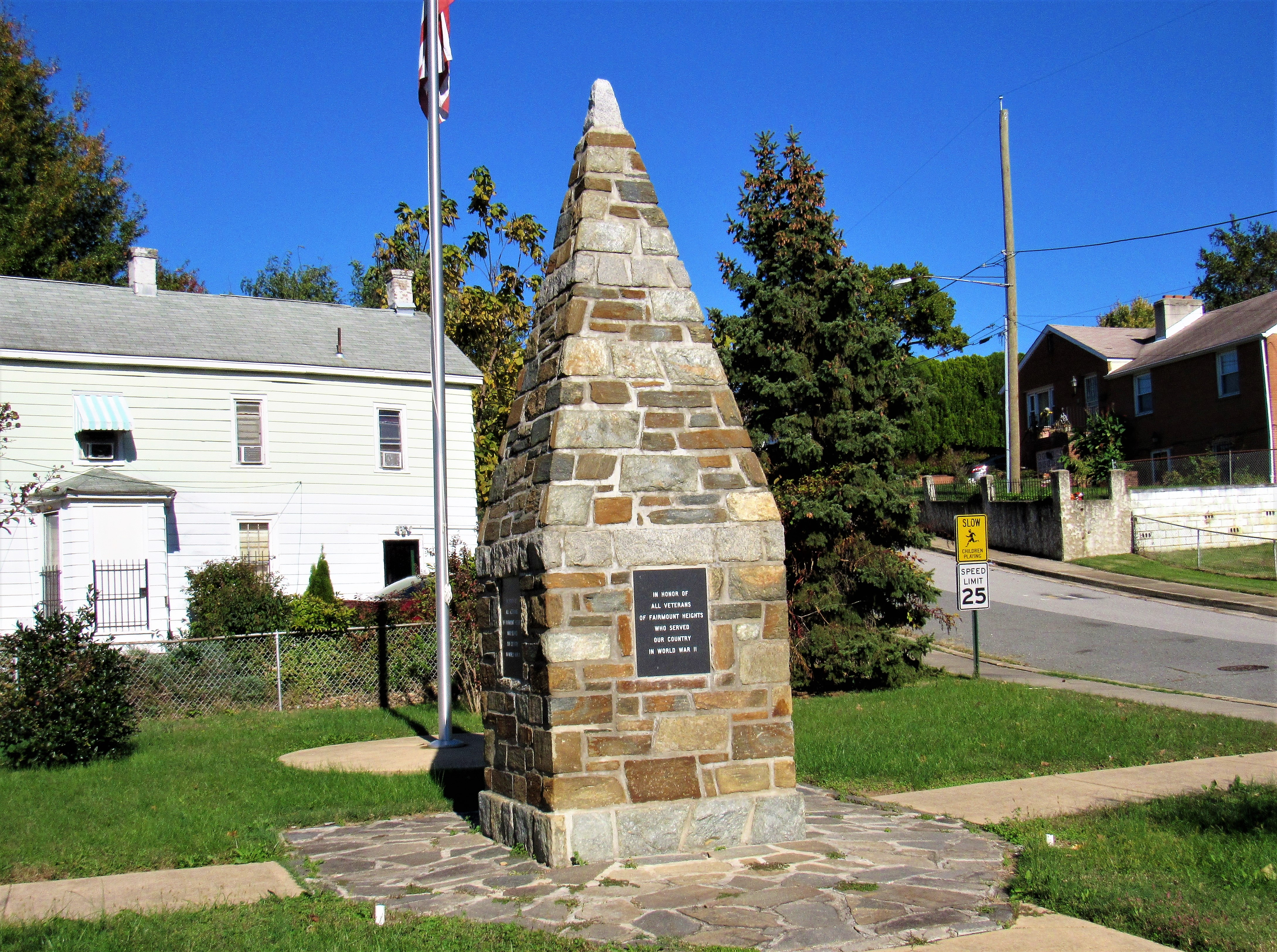 Fairmount Heights Historic District